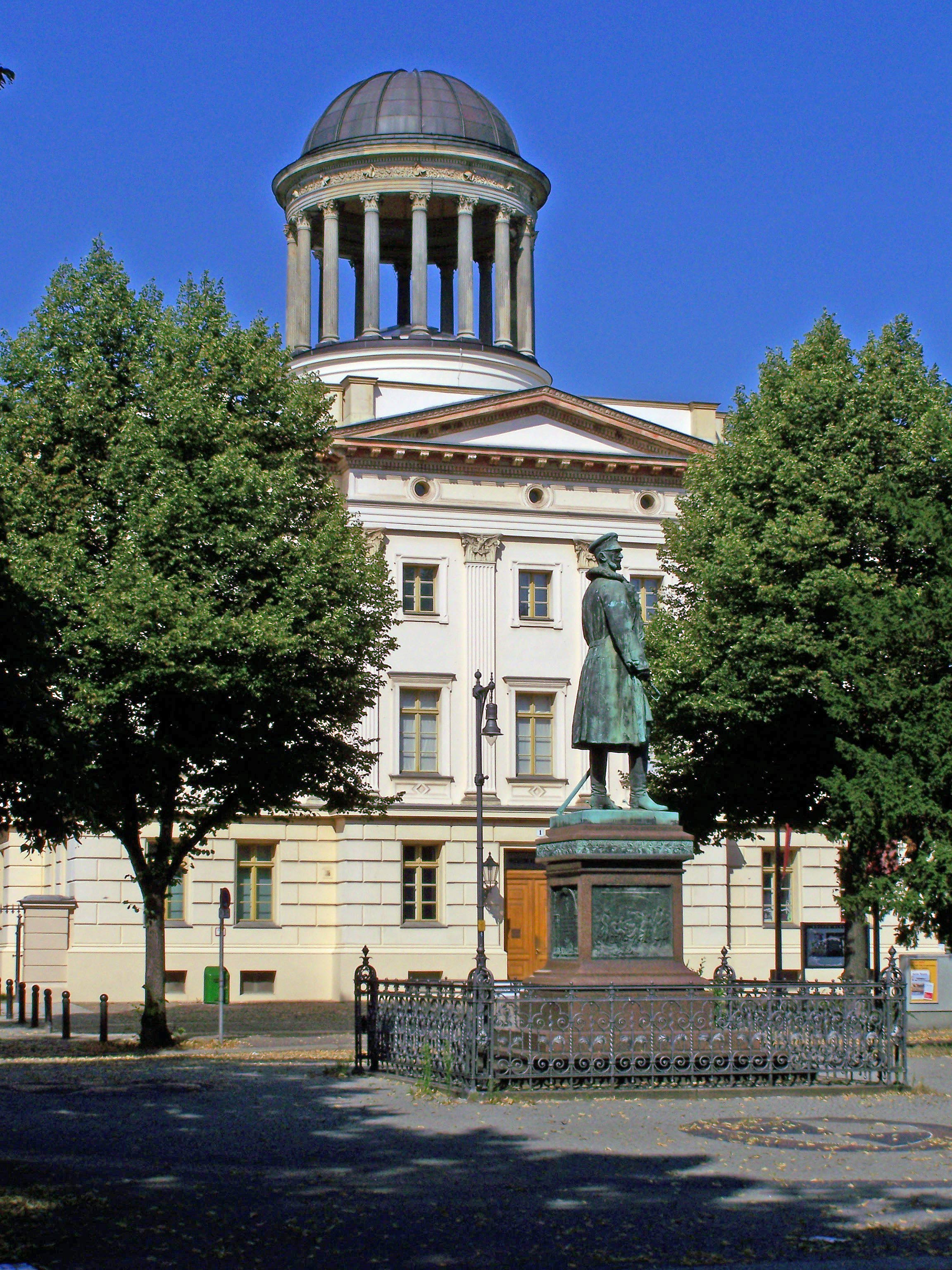 Museum Berggruen, Berlin.